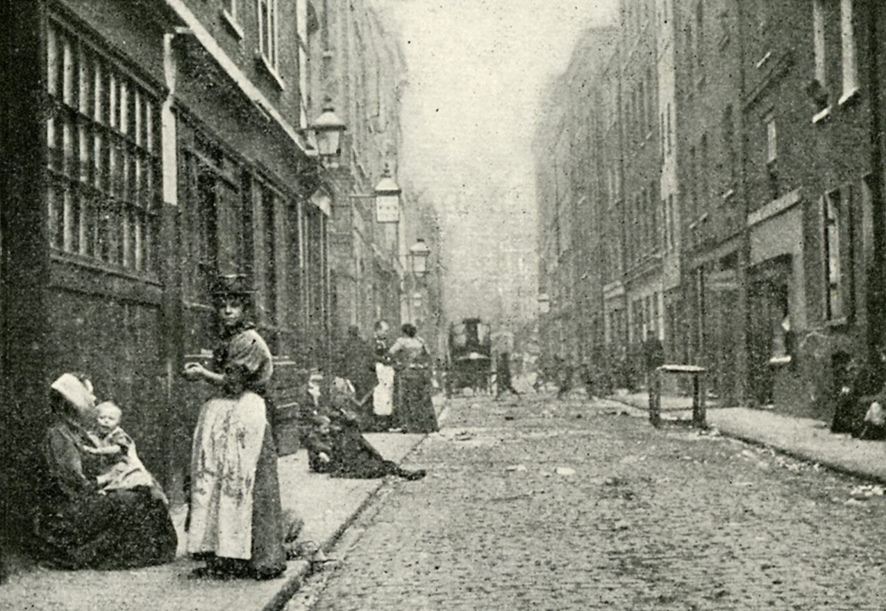 Dorset Street, SpitalfieldsDorset Street, UK, photographed in 1902 for Jack London's book The People of the Abyss. Miller's Court was reached through an alleyway on the right.Photograph first published in Jack London, The People of the Abyss, Macmillan, New York, 1903, 319 p., page 2. [1]